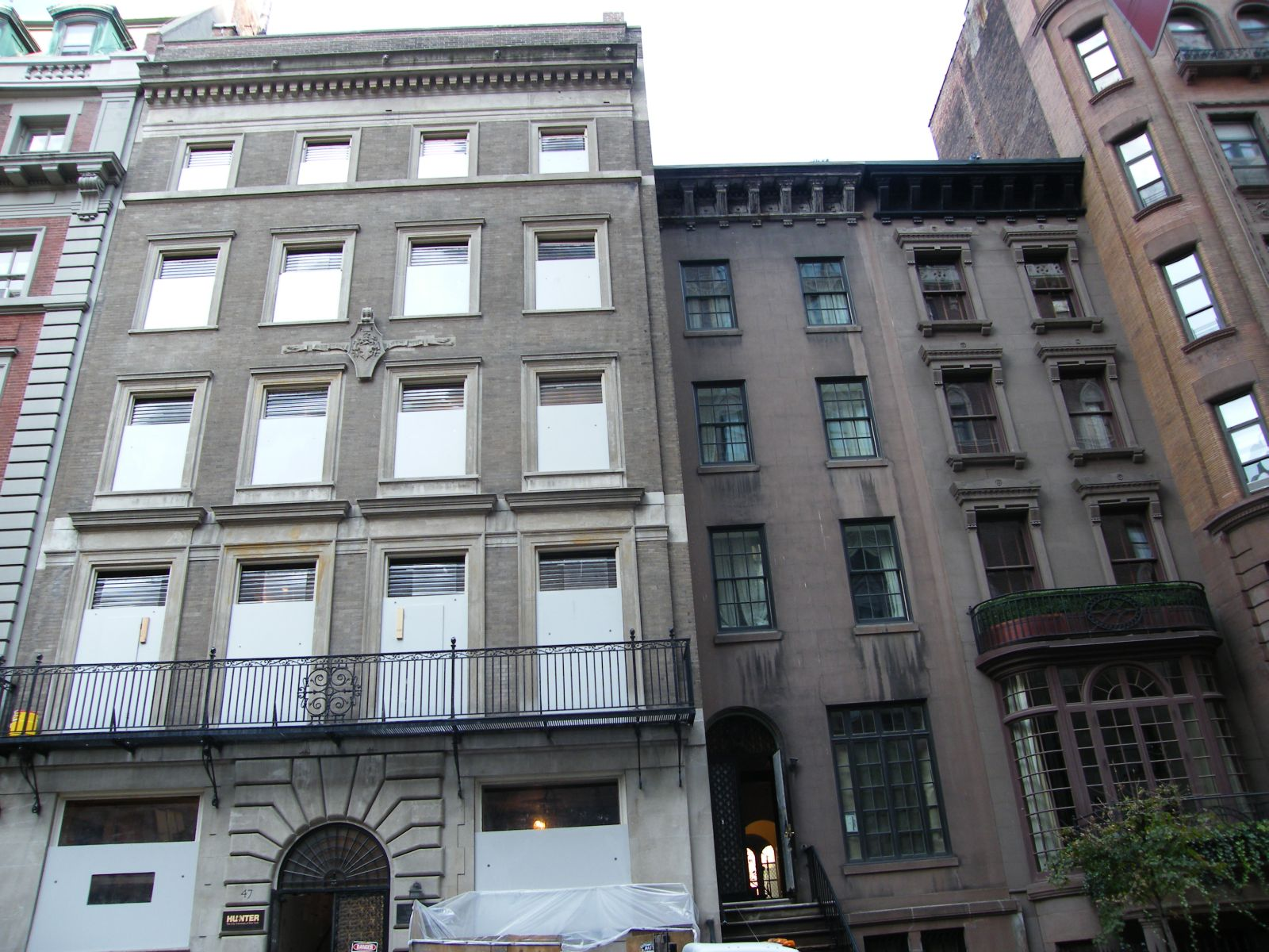 Sara Roosevelt House